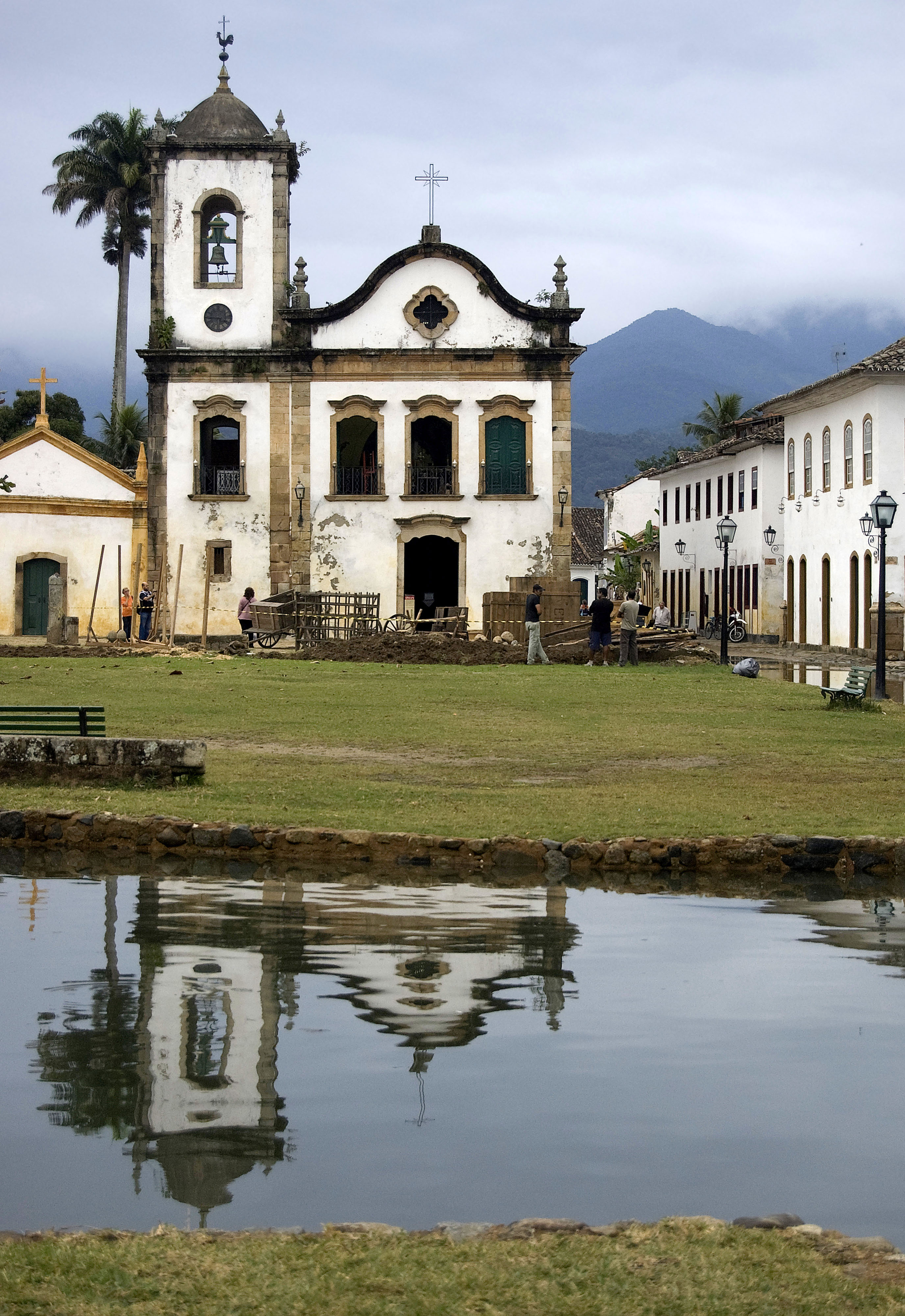 An image of the oldest church in Parati, Brazil. This is a photo of Capela de Santa Rita